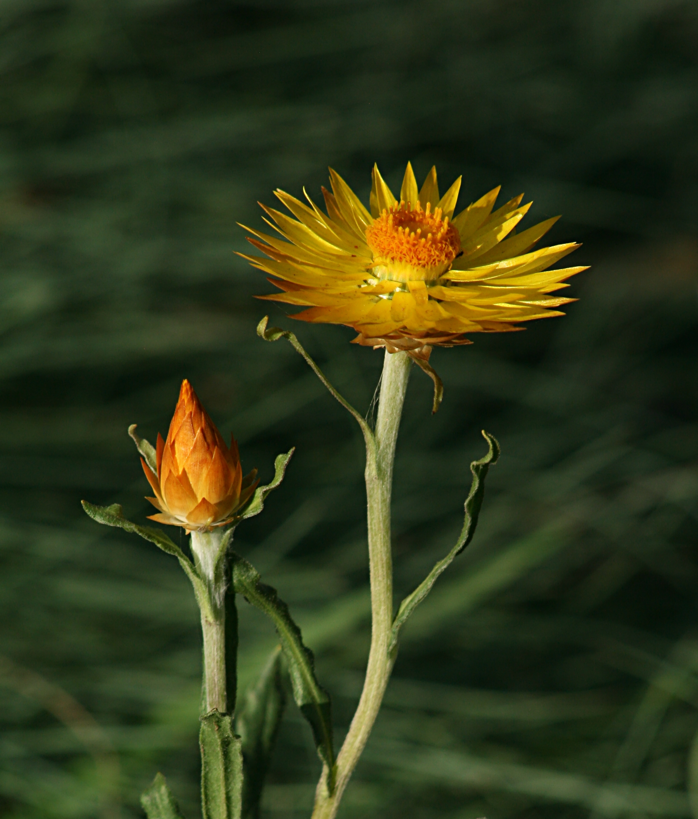 The alpine everlasting or orange everlasting (Xerochrysum subundulatum), growing in summer along the Riverside Walk at Thredbo, an alpine region of New South Wales, Australia.